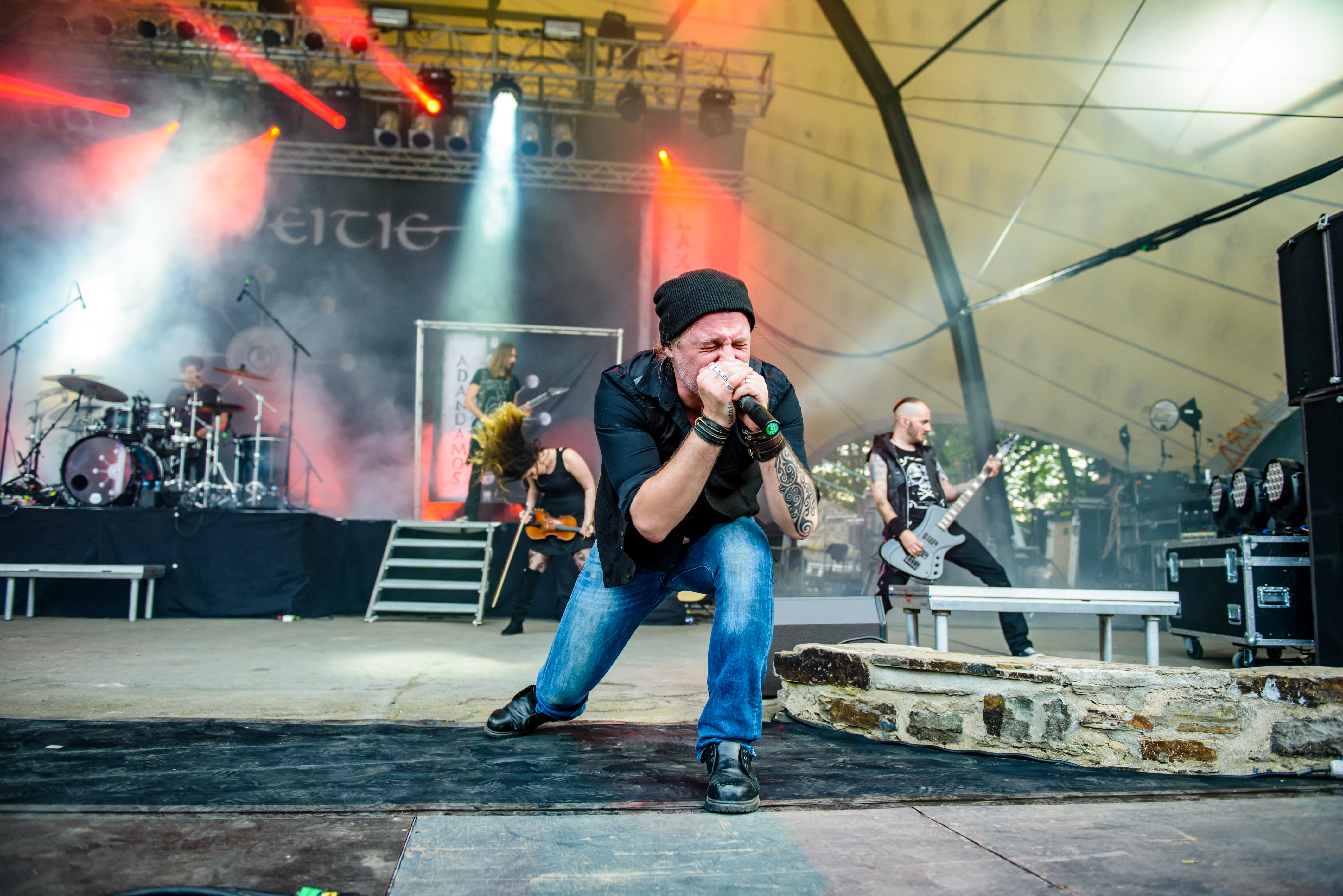 Eluveitie; RockFels 2016 - Loreley